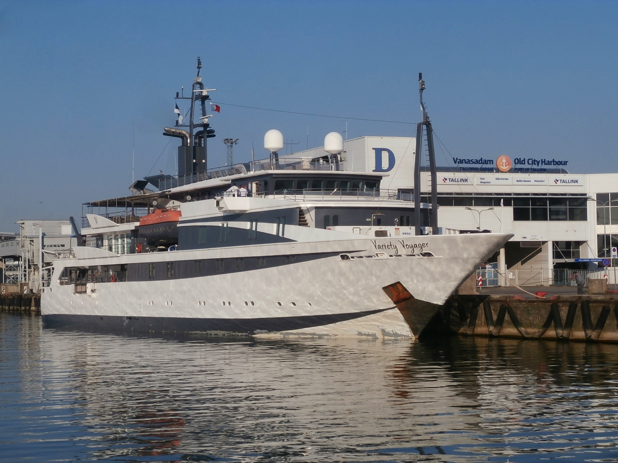 Variety Voyager at quay 8 in Port of Tallinn 15 May 2018